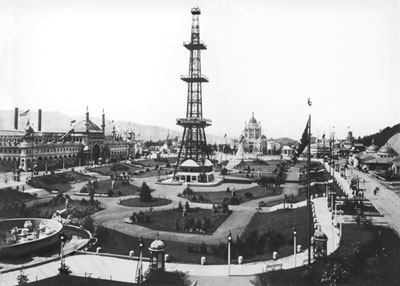 The main concourse of the California Midwinter International Exposition of 1894, in San Francisco. This site is now the Music Concourse in Golden Gate Park.